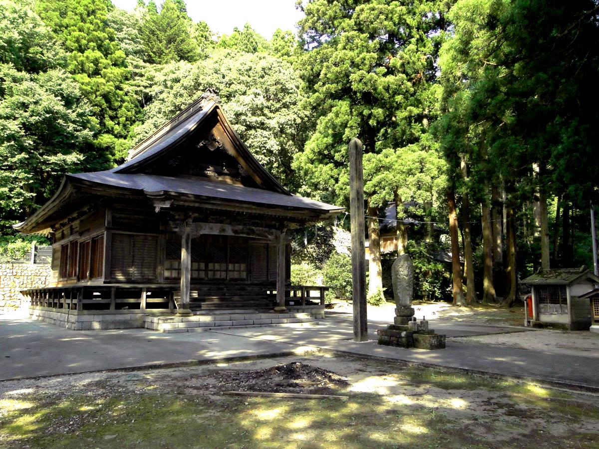 Senkouji_KannonDo